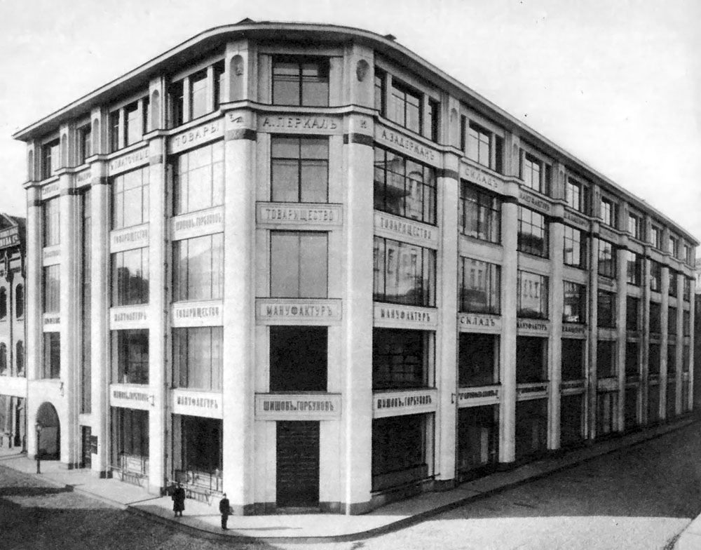 The Moscow Merchant Society building in 1909 (as built).